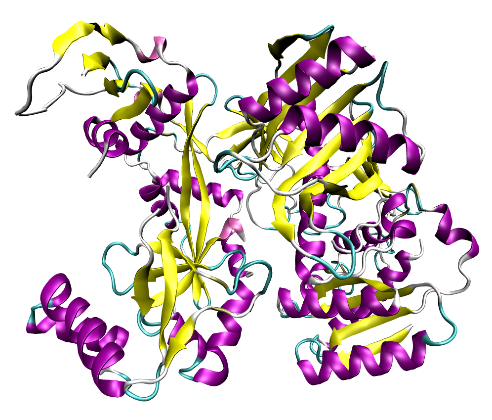 An argonaute protein from Pyrococcus furiosus; these proteins are the catalytic endonucleases in the RNA-induced silencing complex, the protein complex that mediates the RNA interference phenomenon.